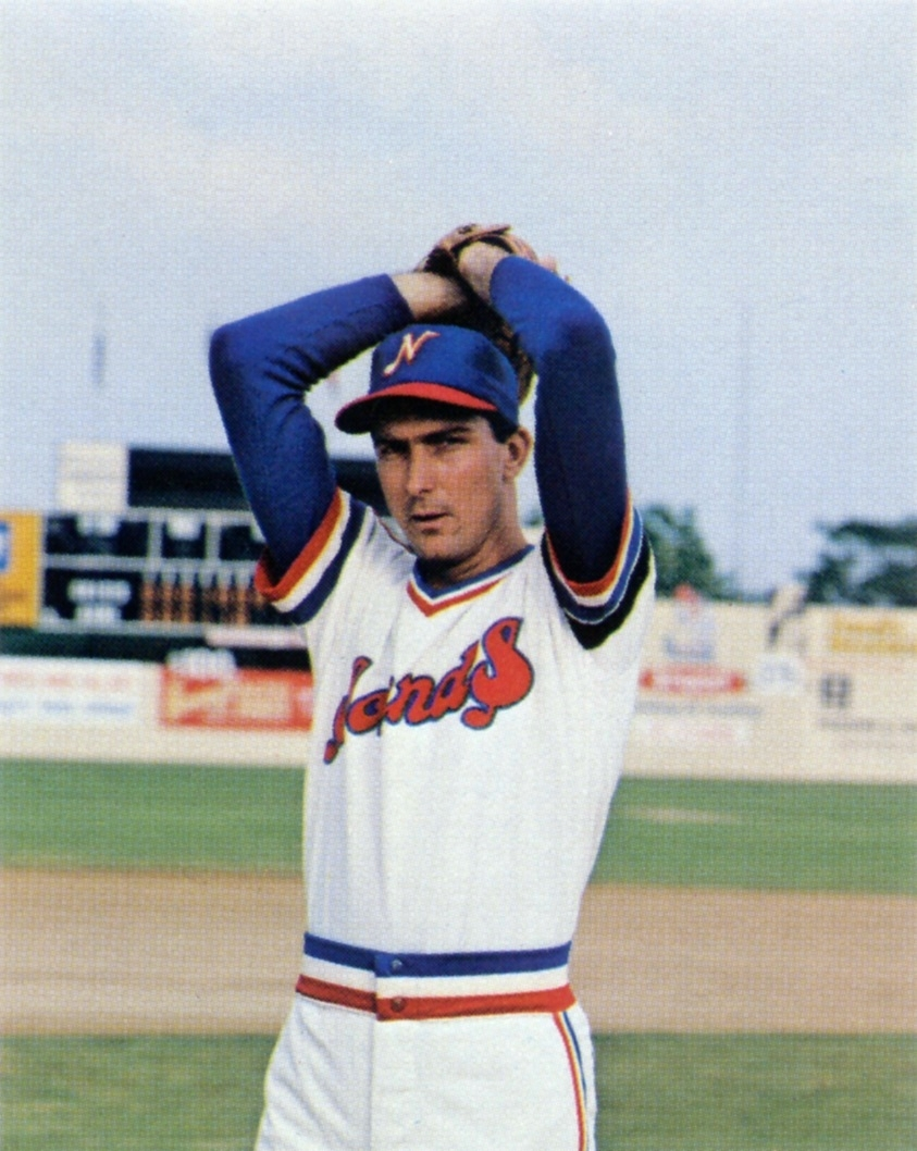 Pitcher Andy McGaffigan of the 1980 Nashville Sounds Minor League Baseball team of the Southern League